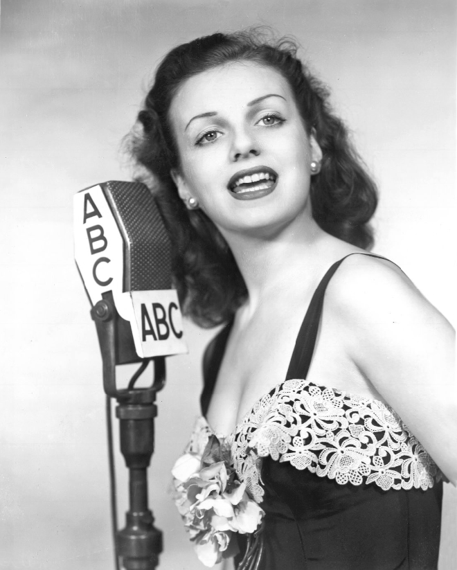 Publicity photo of Ilene Woods.